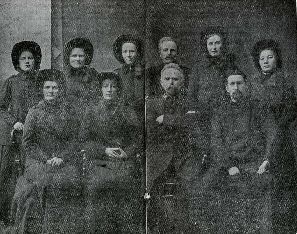 Icelandic members of the Salvation Army spring 1908 Source "Young soldier" Ungi hermaðurinn, 5.-6. Tölublað (01.03.1909), Blaðsíða 20